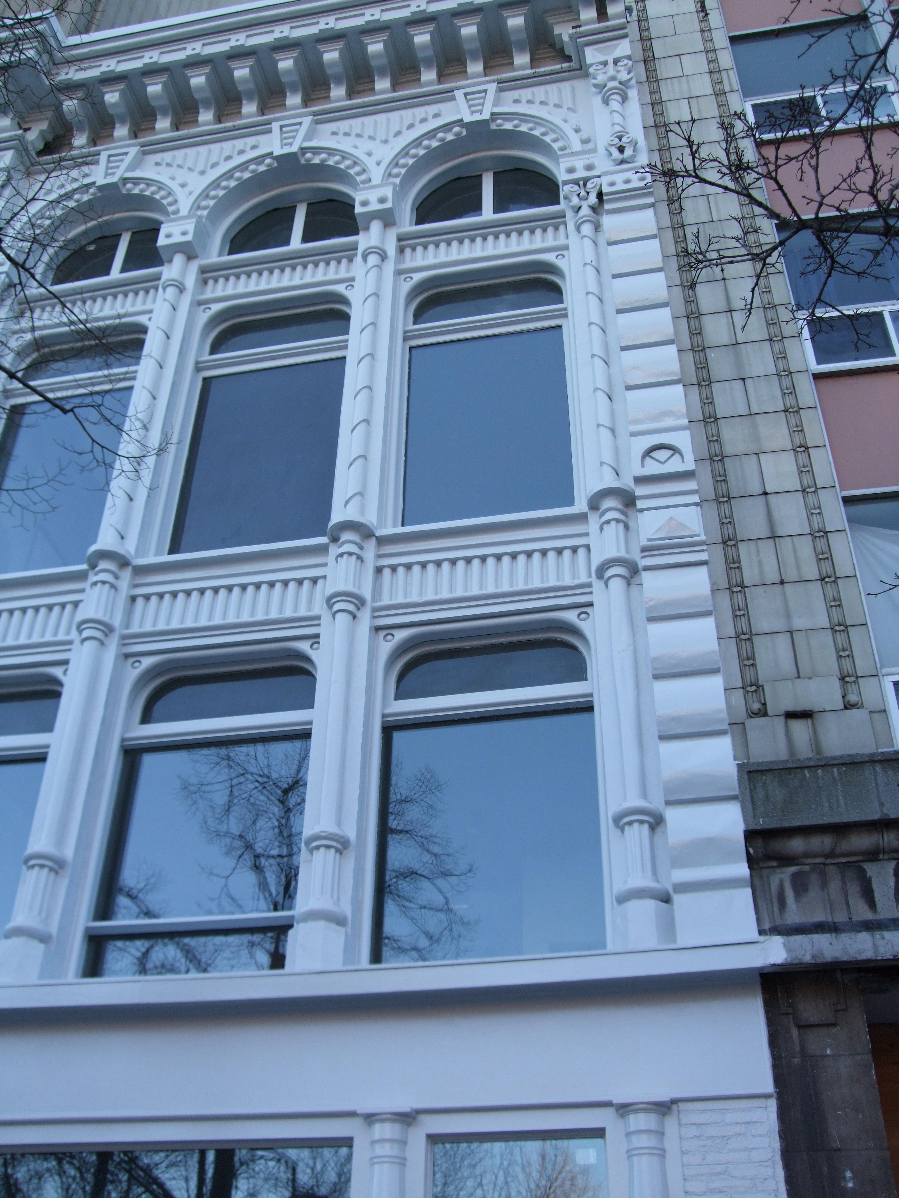 Victoria Hall, Specific